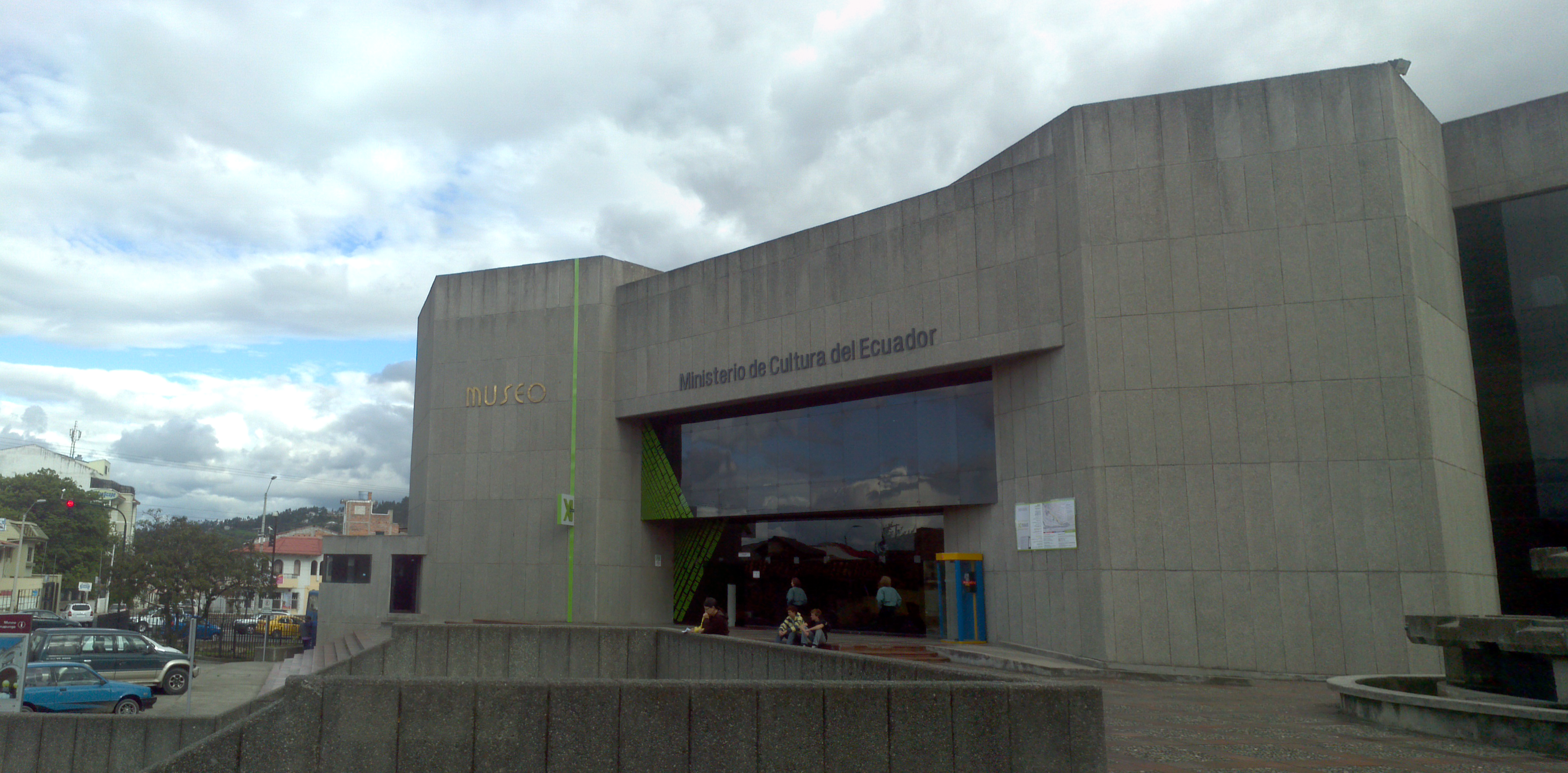 Entrance of the Museum of the Central Bank in Cuenca, Ecuador.